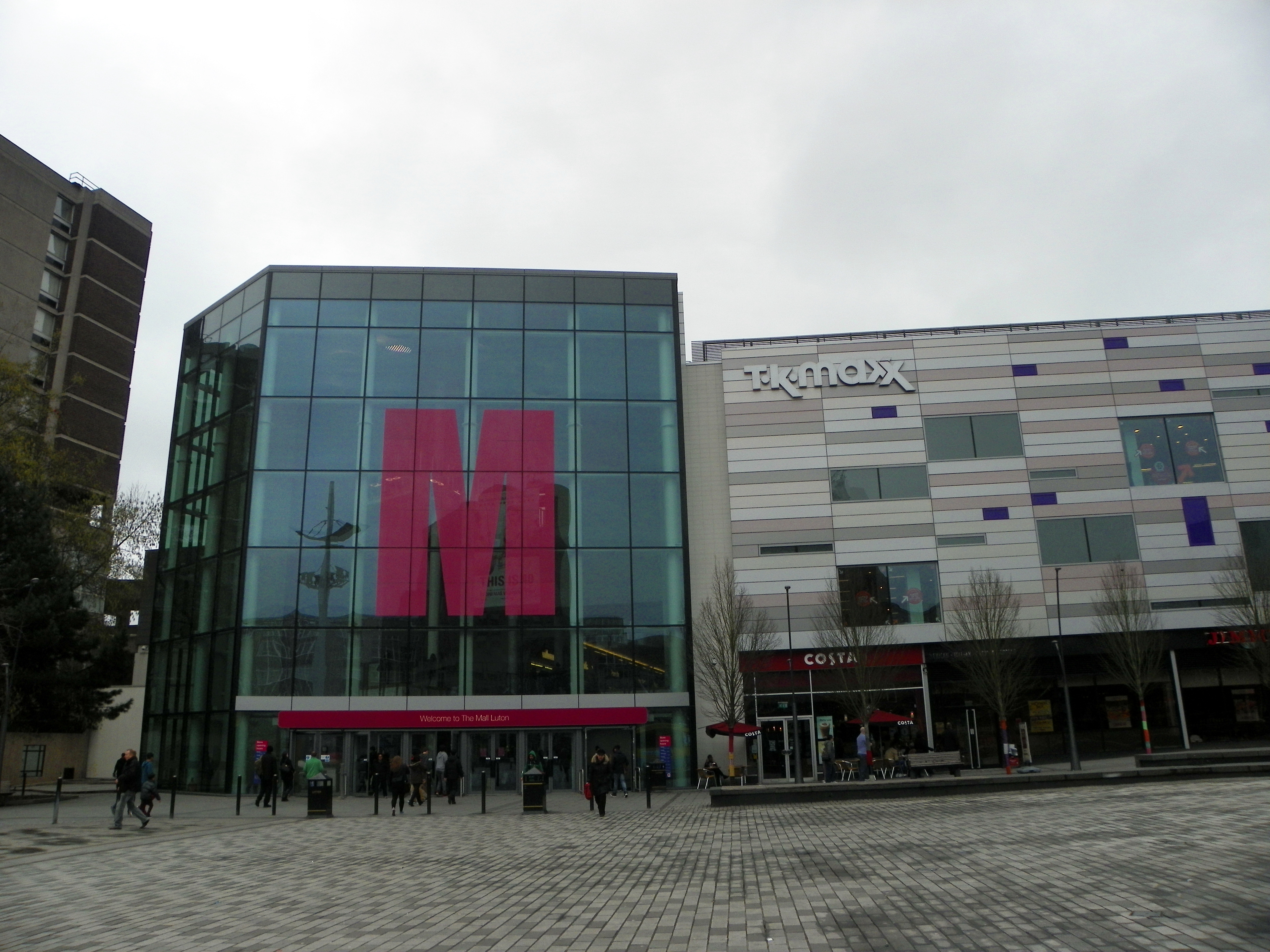 The Mall Luton (formerly the Arndale Centre).